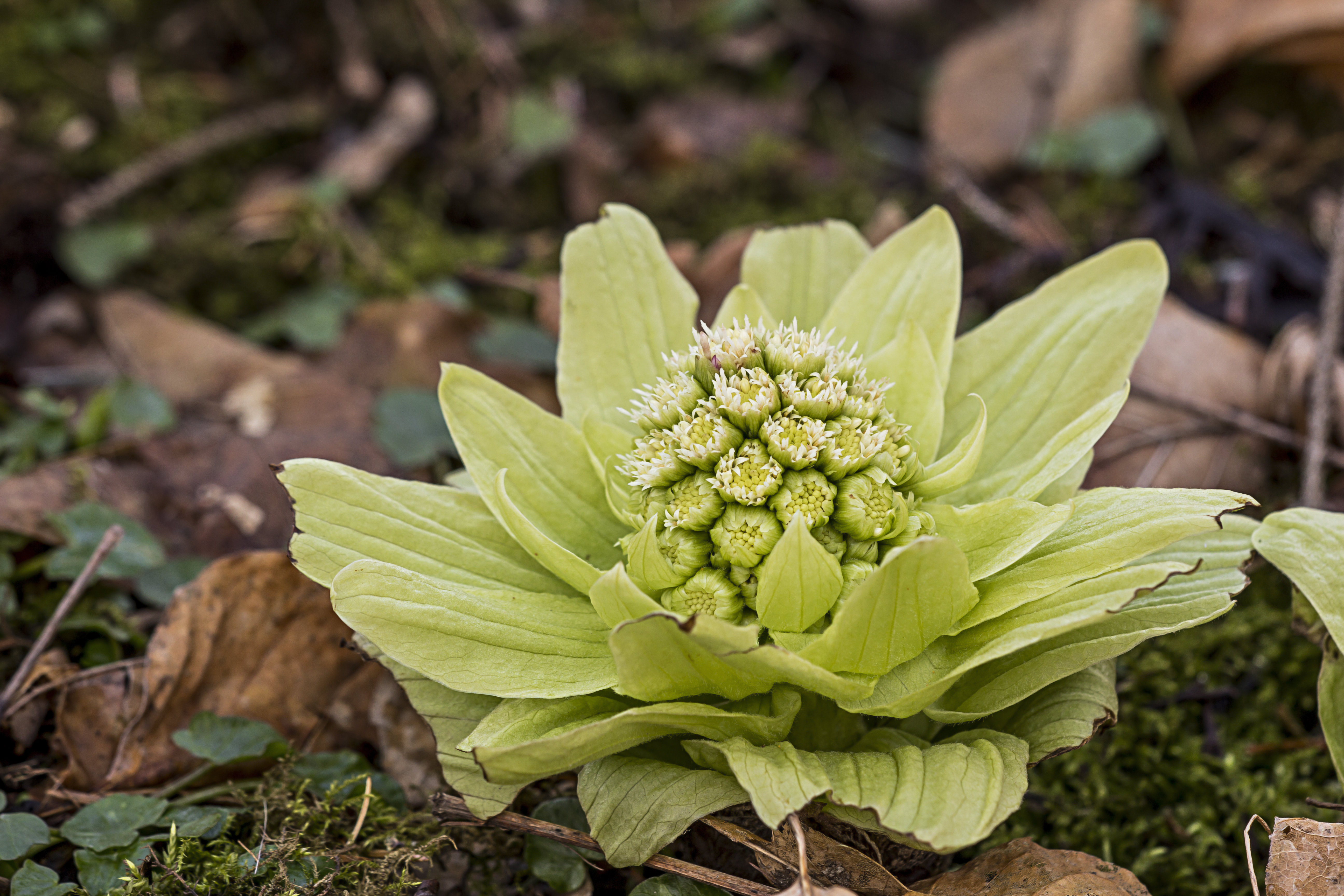 Petasites japonicus, shot in middle of March in Änggårdsbergen, Sweden.